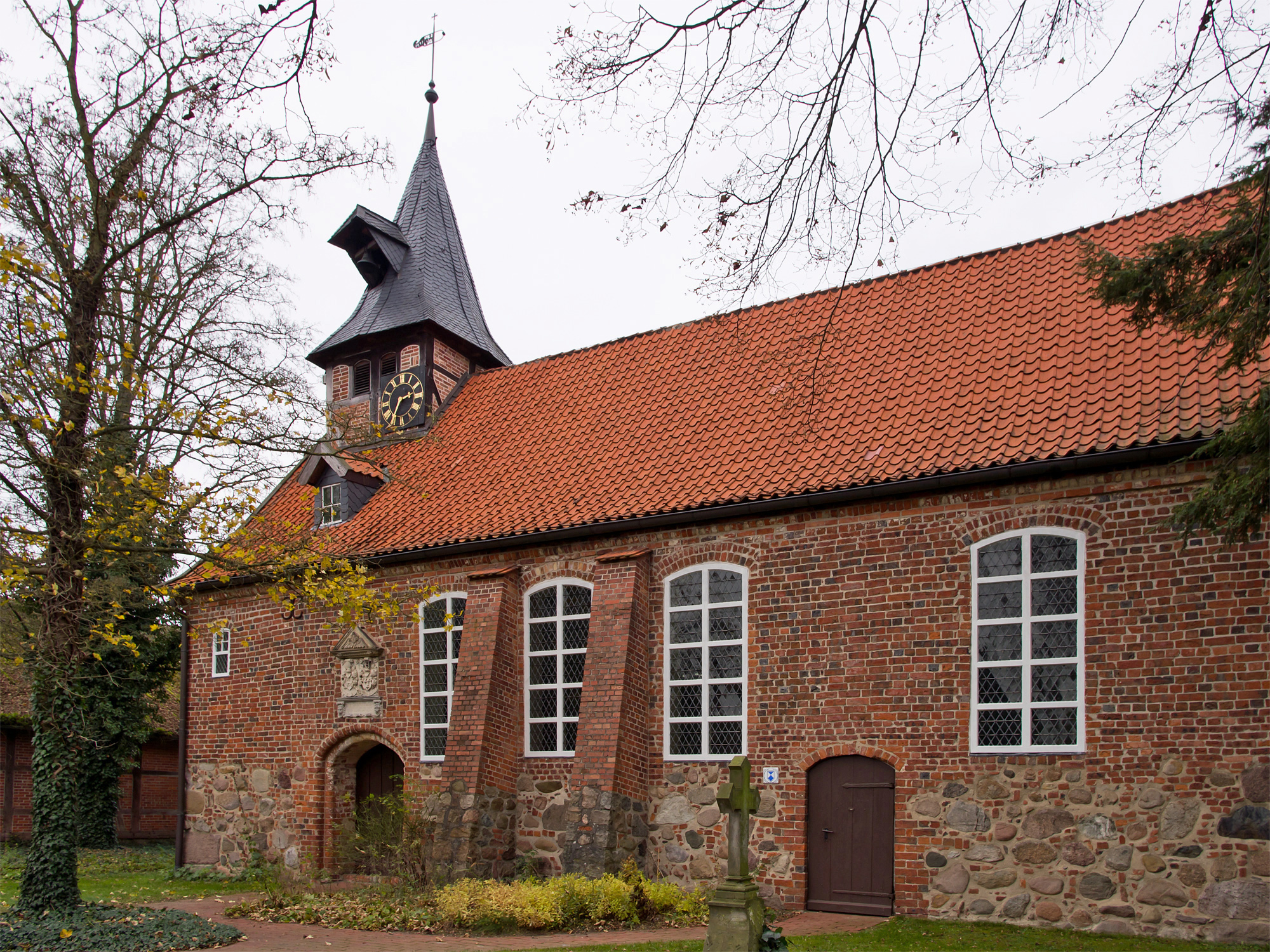 Chapel in the small village "Breese im Bruche", Wendland, Germany.